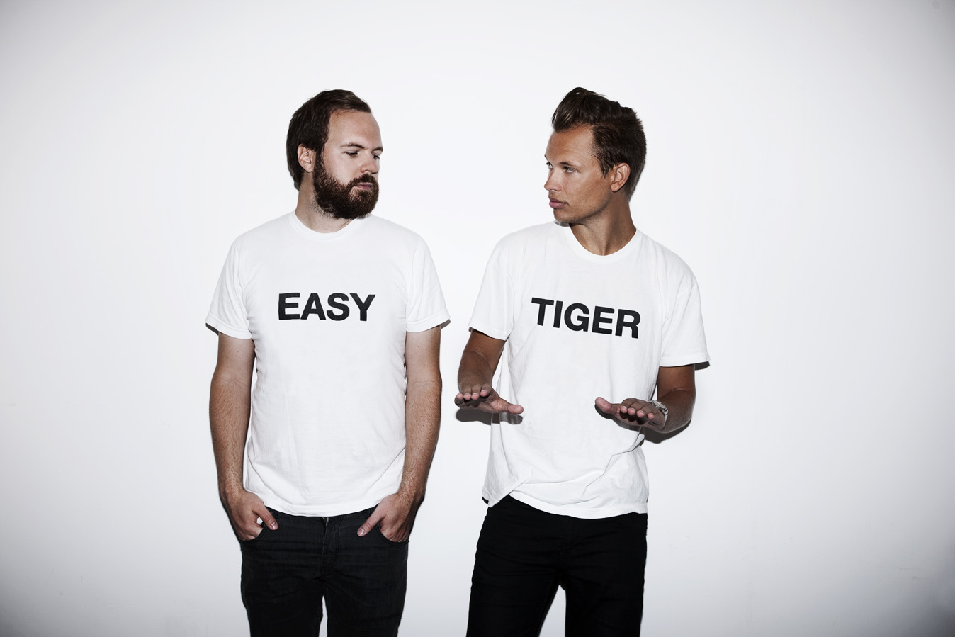 Tigerspring founders Christian Møller and Søren Winding